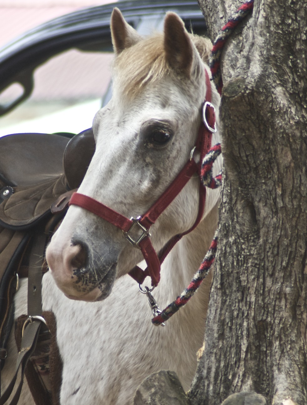 Pony of the Americas